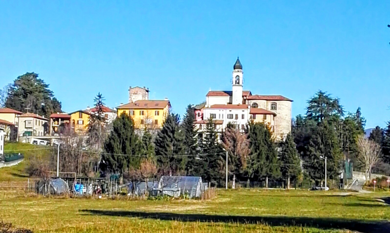 Civello-Villa Guardia